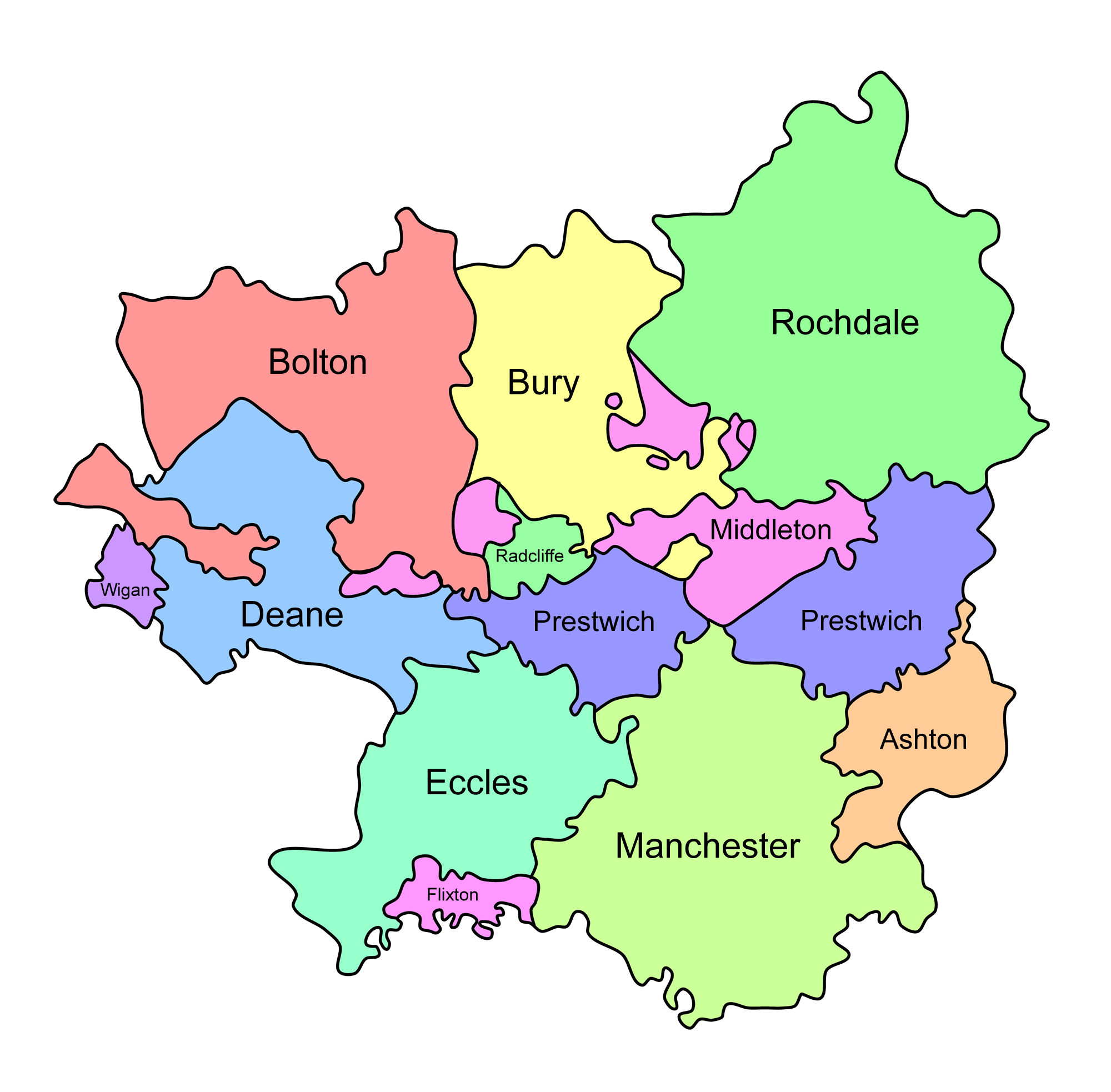 A map of the Salford Hundred, taken from If you'd like changes or additions made to this, please contact me on my Wikipedia talk page.